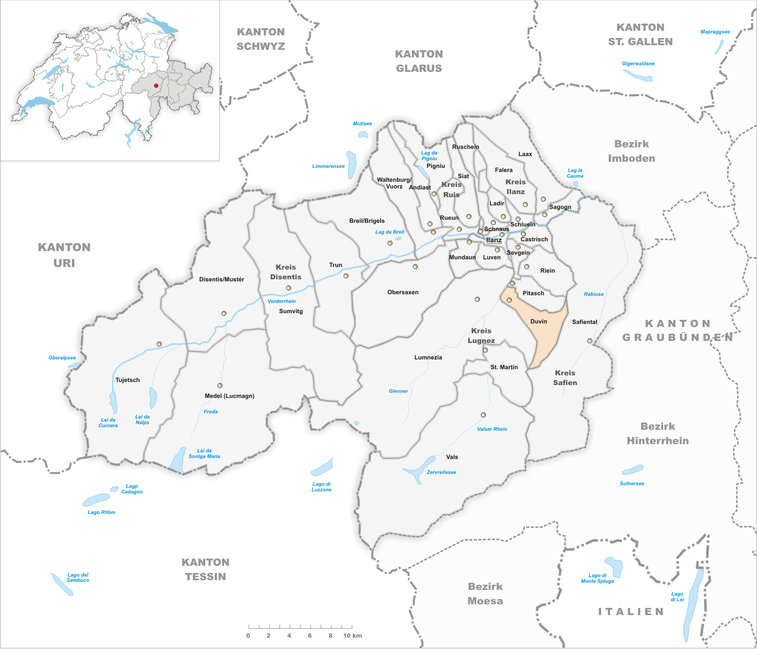 Municipality Duvin